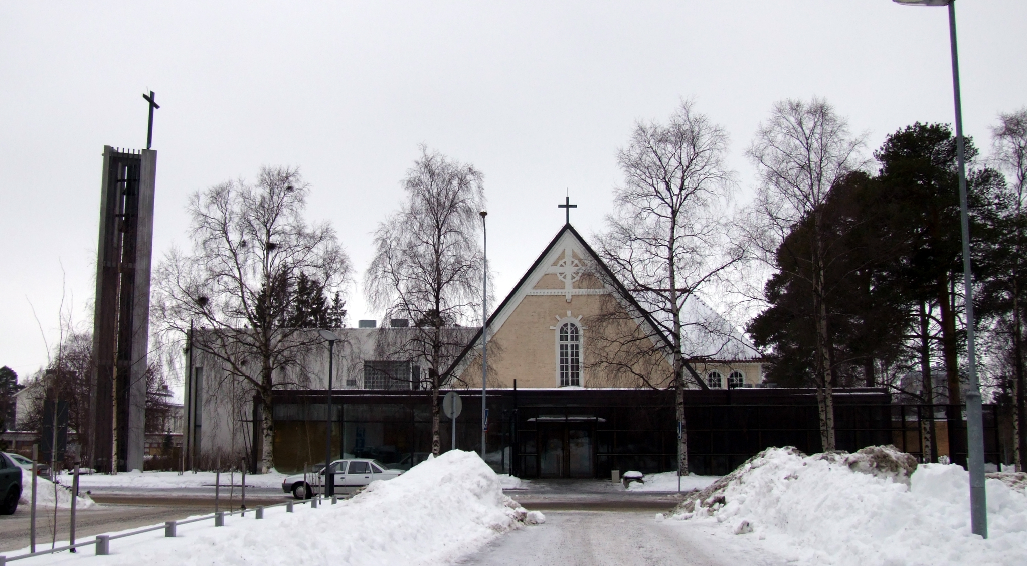 The Tuira Church, Oulu, Finland. The church was designed by architect Harald Andersin 1916, renovations and extensions by architect Mikko Huhtela 1966 and Ulla and Lasse Vahtera 1992.